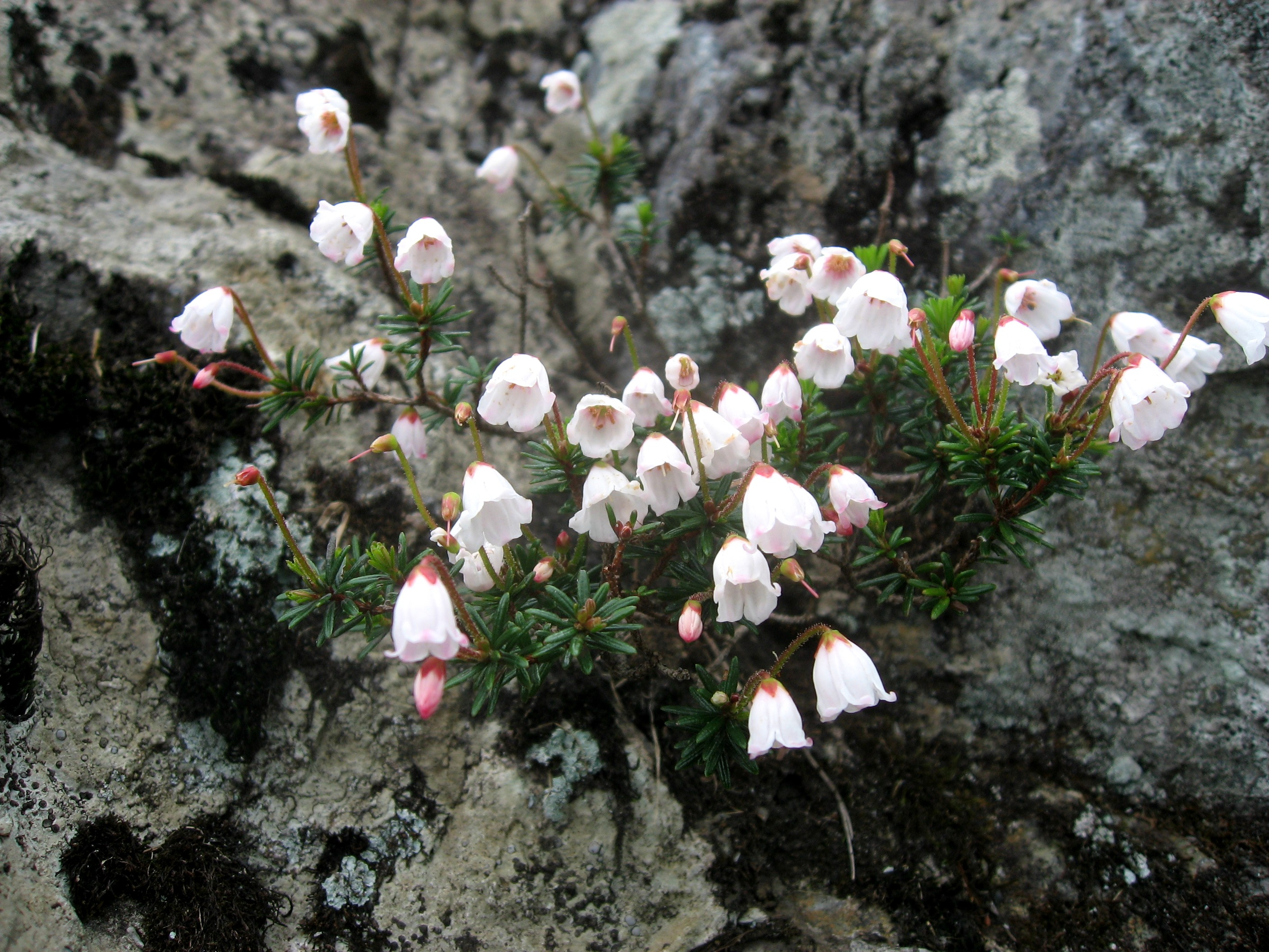 Phyllodoce nipponica var. nipponica, Aizu area, Fukushima pref., Japan